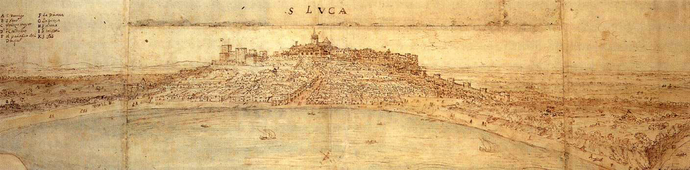 View of Sanlúcar de Barrameda (Spain) in the Sixteenth Century